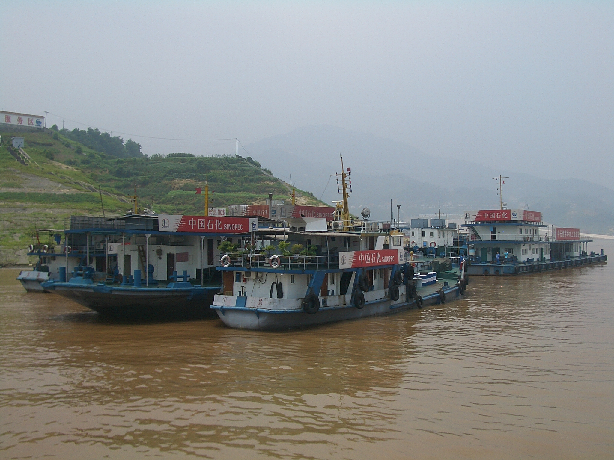 Boat fueling station (owned by Sinopec) on the right bank of the Yangtze in Zigui County, just a bit upstream from Maoping port